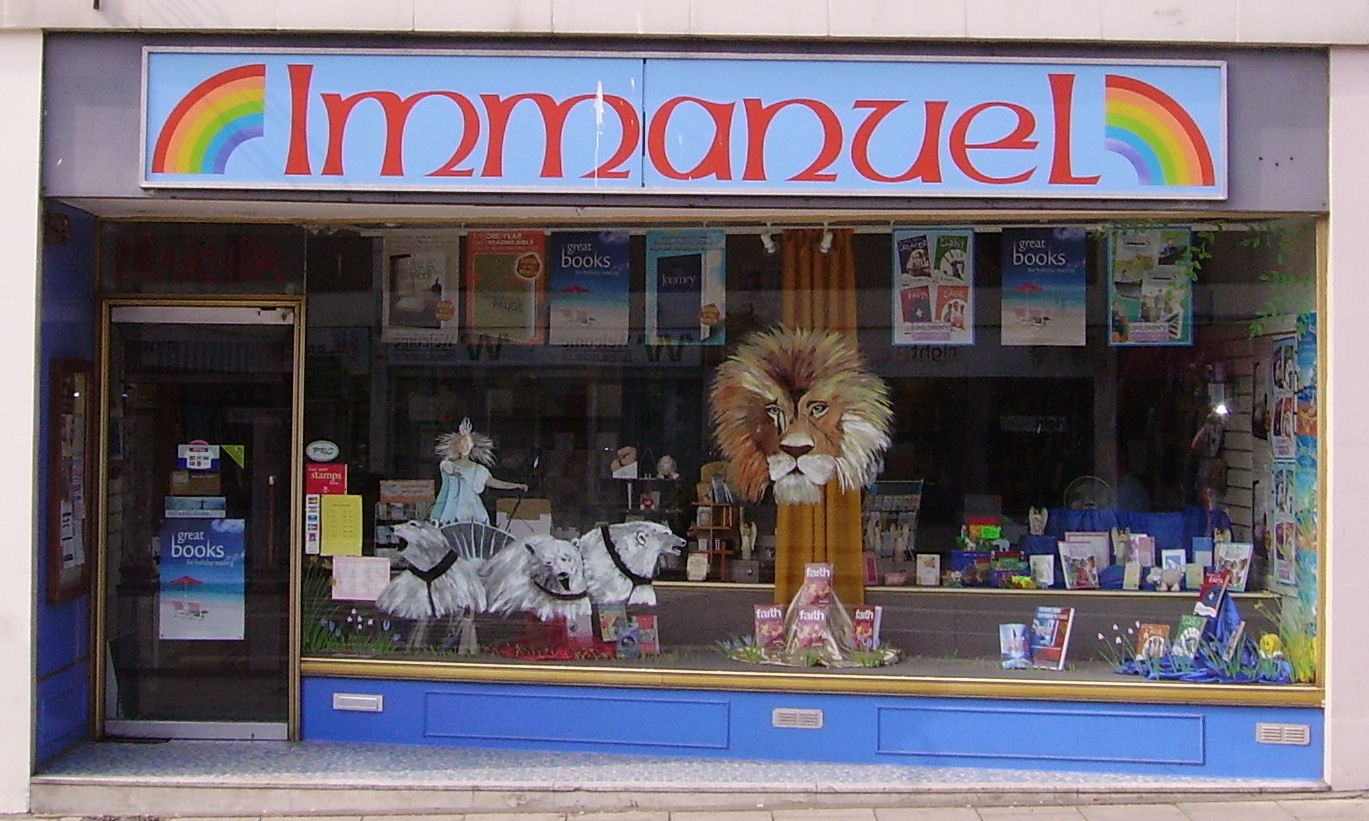 bookstore in Scarborough, United Kingdom